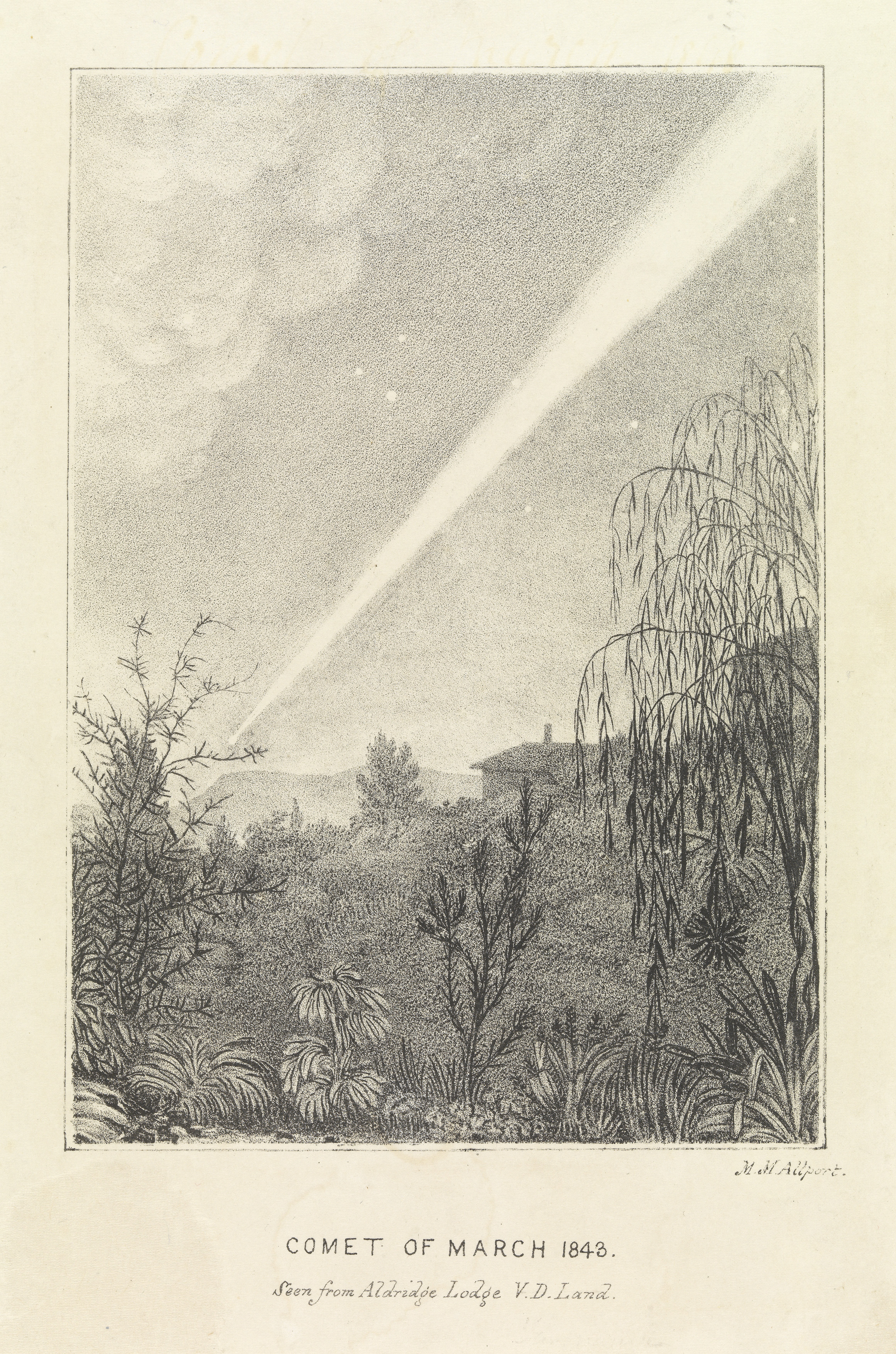 The Great Comet of 1843, as seen from Australia